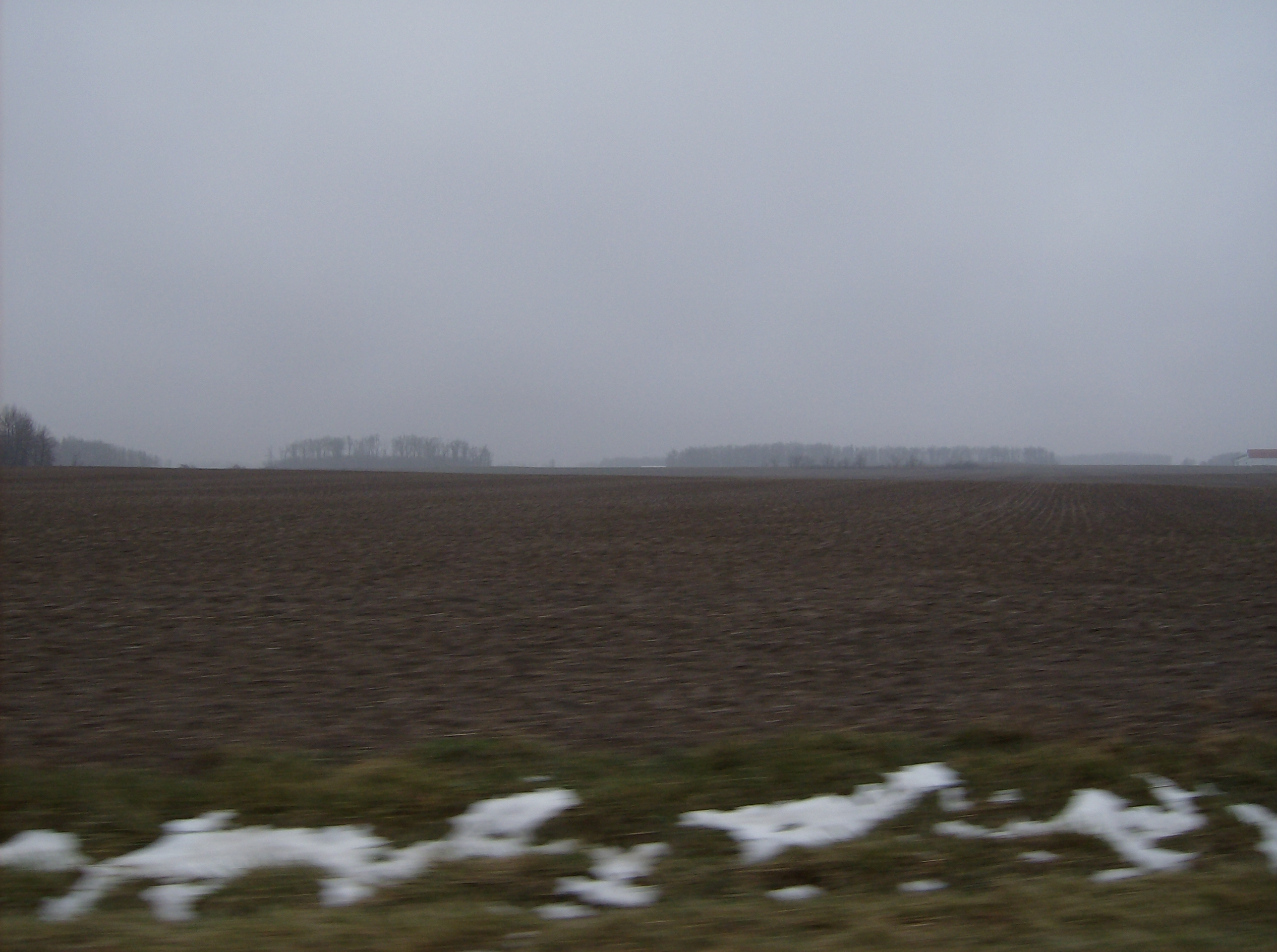 Fields in northern Mississinawa Township, Darke County, Ohio, United States. Picture taken westward from State Route 49.